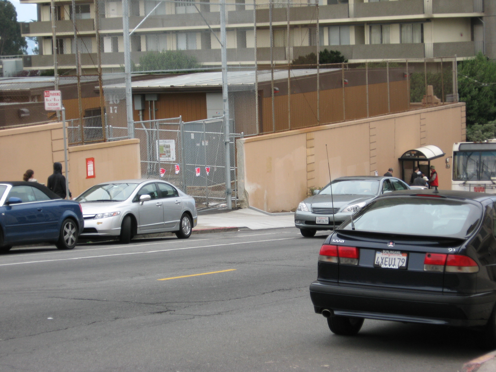 Bungalows at Galileo Academy of Science and Technology during construction. To the right is a NABI bus on the 19-Polk line during the Ghirardelli chocolate festival.